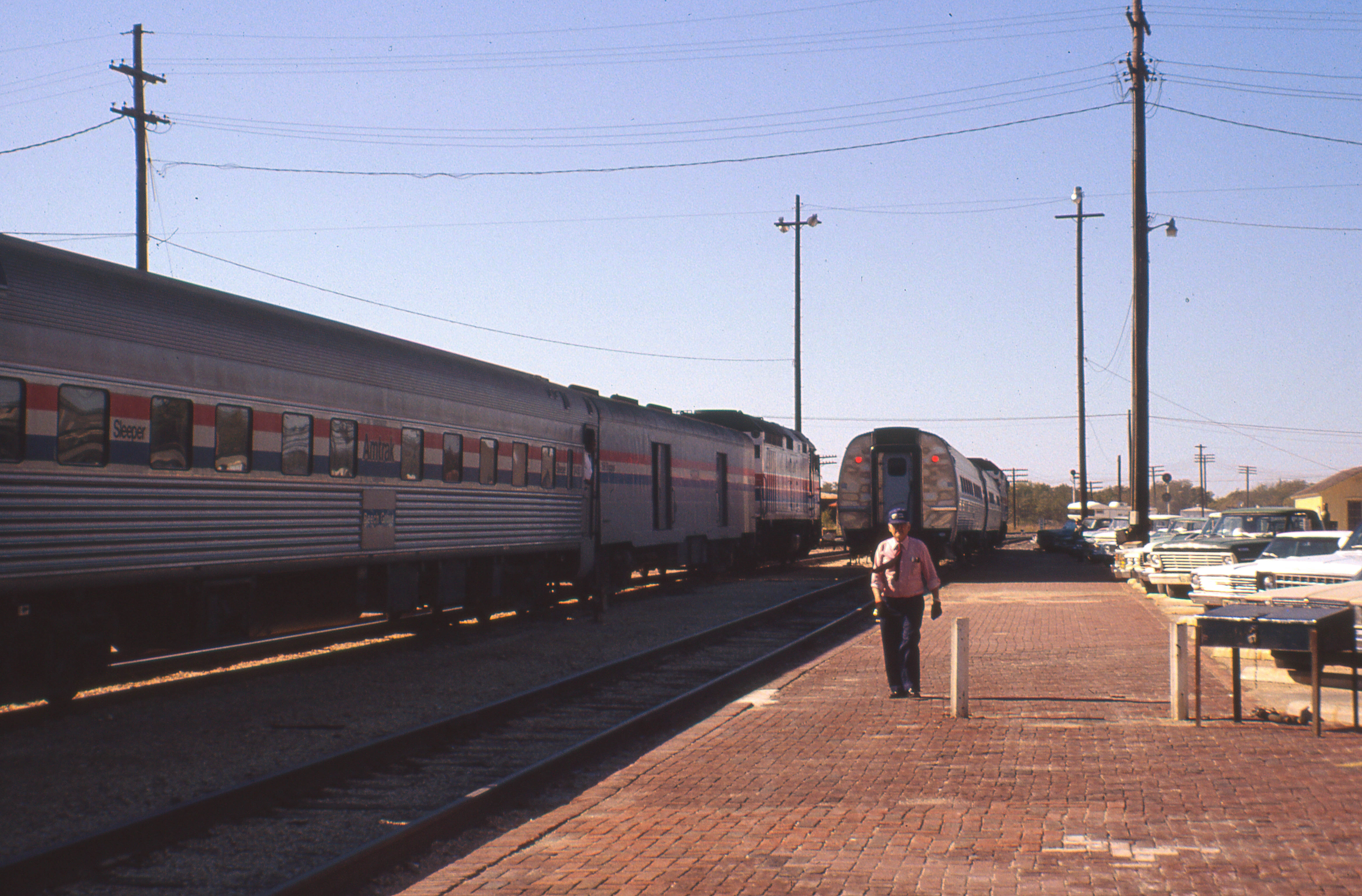 I believe this picture shows the Laredo cars, an Amcoach and an Amdinet being switched onto the north bound Inter-American.